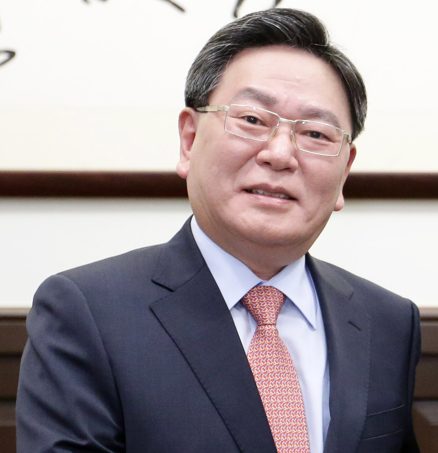 Yang Chang-soo, newly-appointed Representative of the Korean Mission in Taipei.